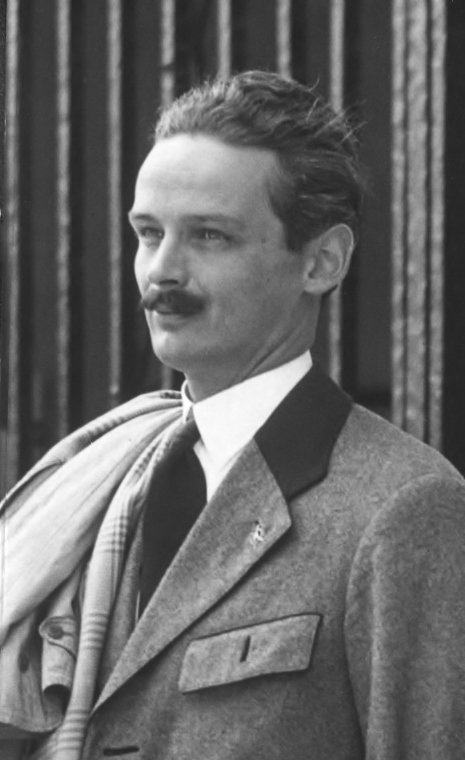 Josef III. Schwarzenberg